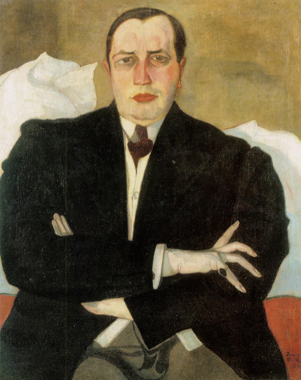 Portrait of Professor Leon Chwistek